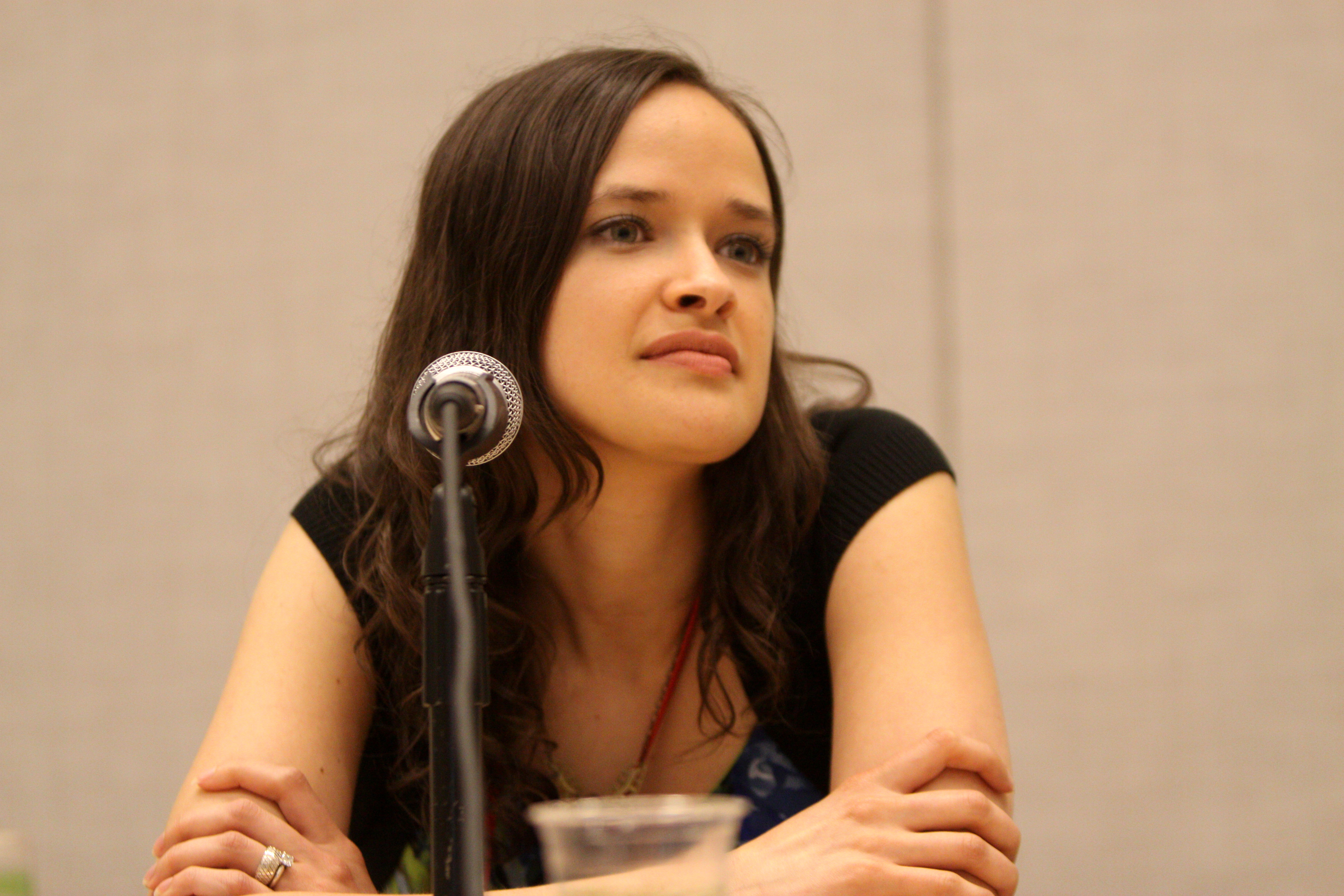 Voice actress Brina Palencia at the Phoenix Comicon in Phoenix, Arizona.